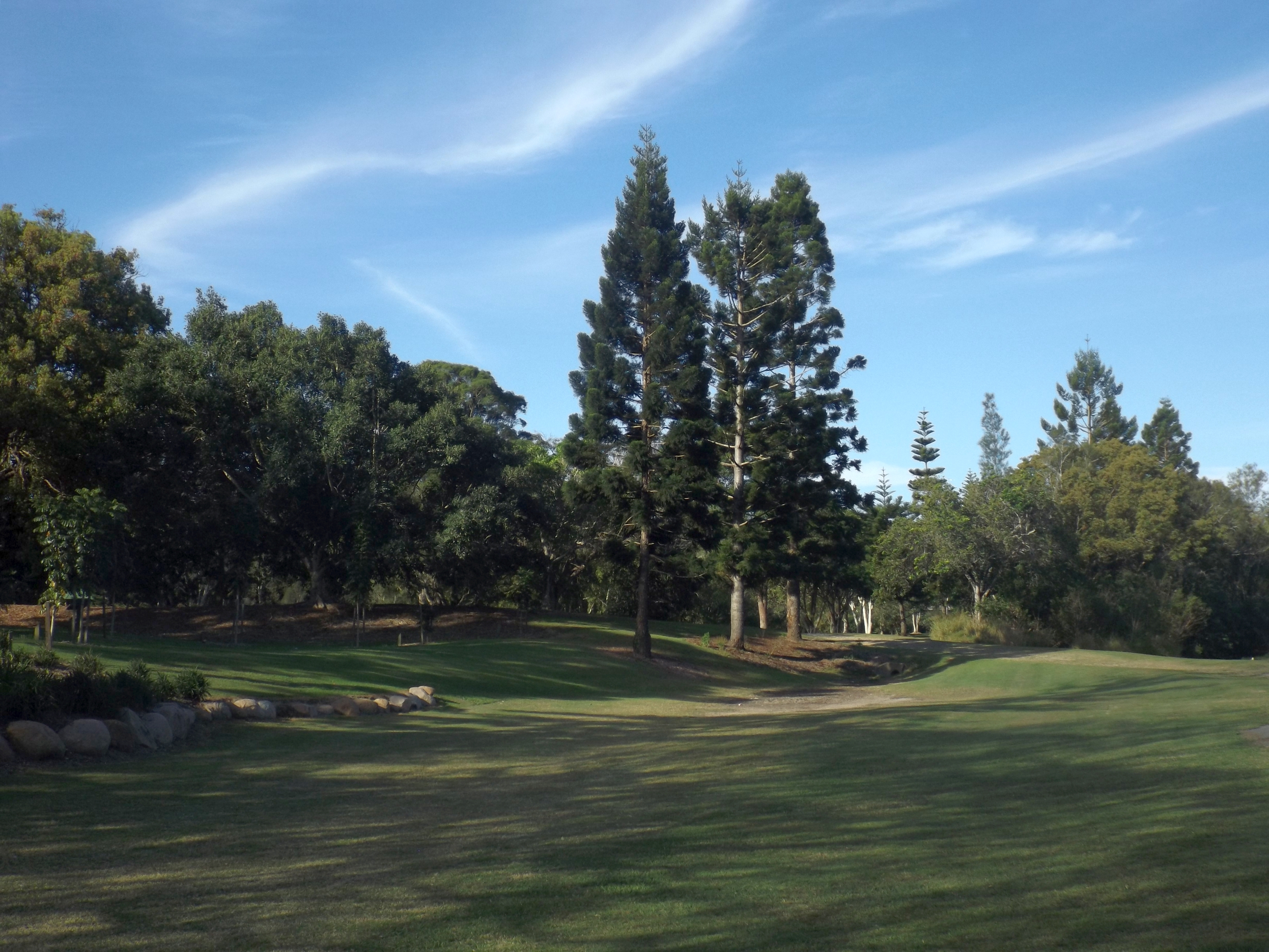 Photo of grassed area at Sweeney's Reserve at Petrie, Moreton Bay Region, Queensland, Australia.